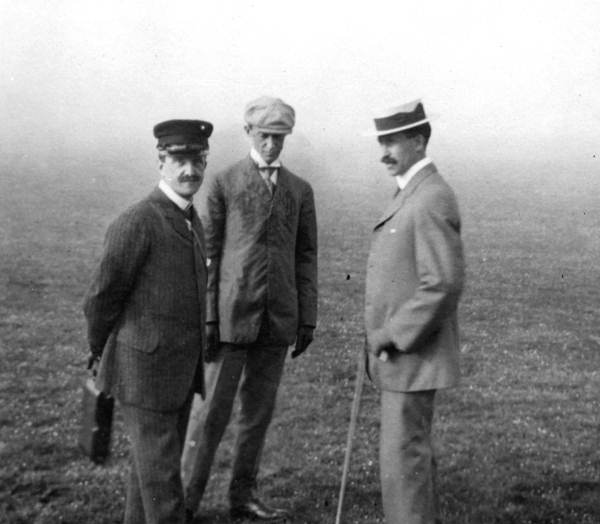 Local call number: PR00445 Title: [Day of Griscom's flight with Wilbur Wright flying the plane] Physical descrip: 1 photograph: b&w; 8 x 10 in. Personal subjects: Wright, Wilbur, 1867-1912; Griscom, Lloyd Carpenter, 1872-1959. General note: In April 1909 the Wright Brothers traveled to Centocelle Field outside of Rome, Italy, in order to provide flight training to two Italian lieutenants. Spectators included Italian King Victor Emmanuelle III, Financier J.P. Morgan, and the United States Ambassador to Italy, Lloyd C. Griscom, who later established a home, Luna Plantation, in Tallahassee, Florida. One of the flights included Ambassador Griscom as a passenger. Identified standing at the left is King Vittorio Emmanuel III. Date captured: April 1909. Repository: 500 S. Bronough St., Tallahassee, FL 32399-0250 USA. Contact: 850.245.6700. Persistent URL